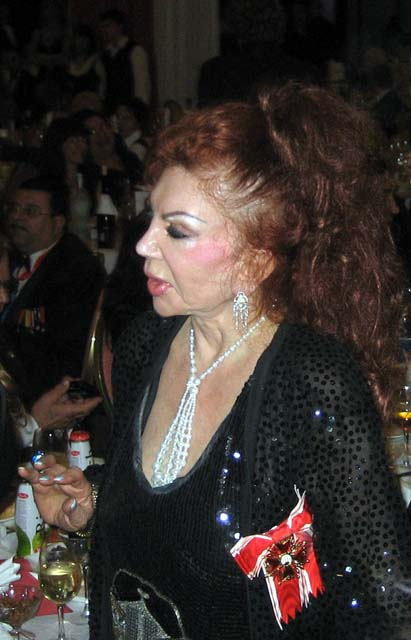 Jackie Stallone wearing the 'regalia' of the Order of St. Stanislas. She was made a Dame of the Order a few hours before the International Ball.